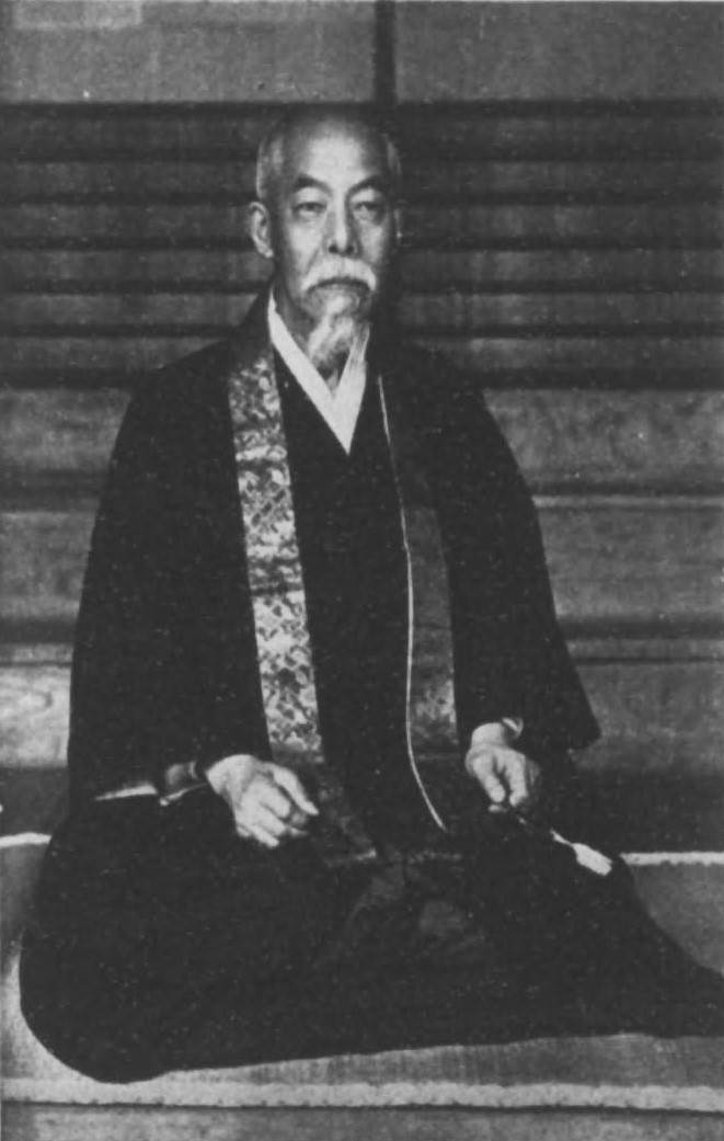 Nanjō Bun'yū, a Japanese buddhist studies scholar and Shin buddhist monk.